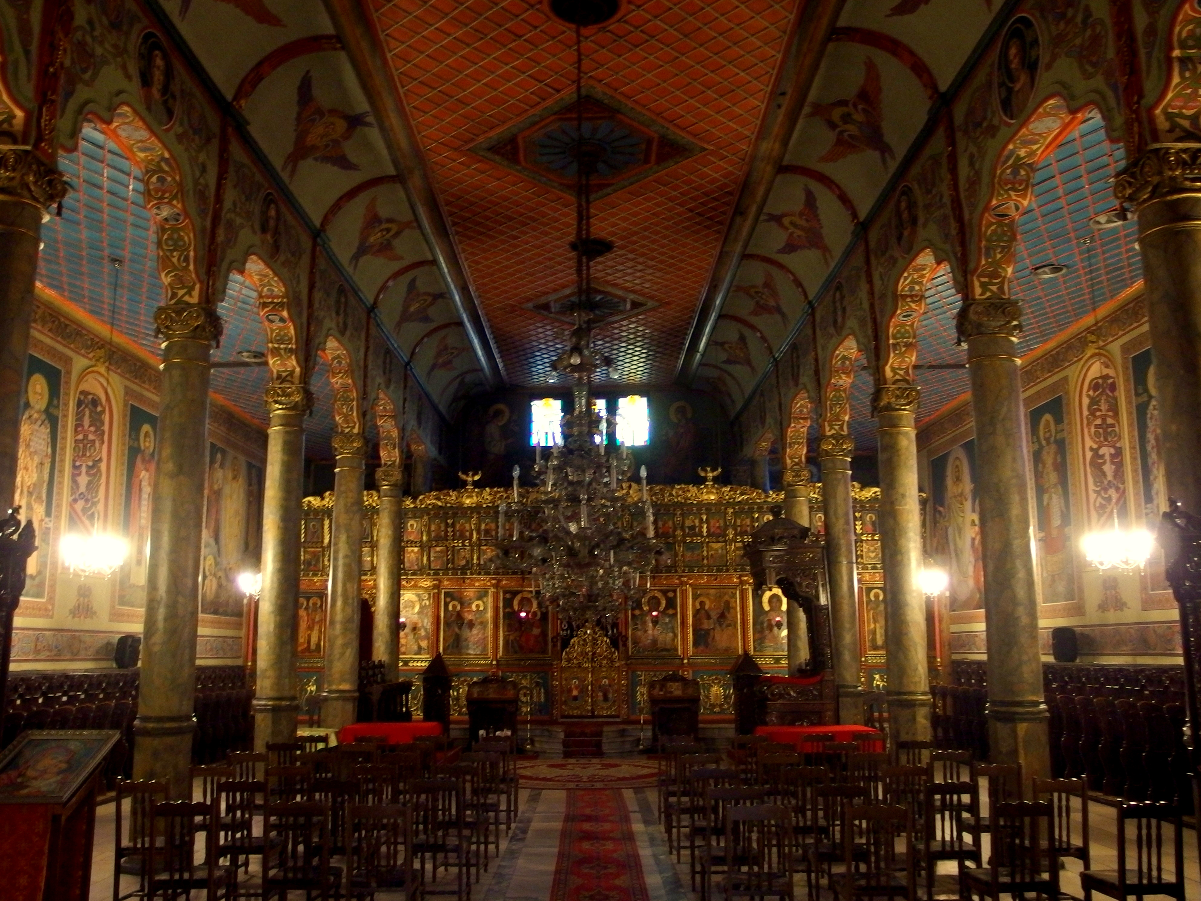 2014-06-25 in Rousse.